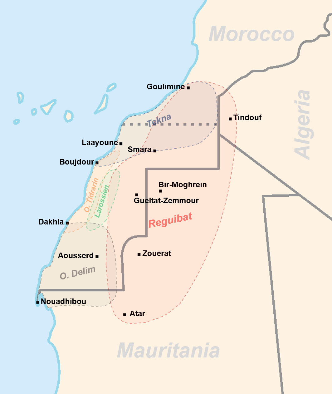 The Saharawi tribes Larossien, Oulad Delim, Oulad Tidrarin, Reguibat and Tekna of Western Sahara. Traditional localizations according to: Attilo Gaudio, "Les populations du Sahara occidental: histoire, vie et culture", ed. Karthala 1993, (Chap. VIII, pp.97-116) (ISBN: 2-86537-411-4) [1] Maurice Barbier, "Le conflit du Sahara occidental", ed. L'Harmattan 2000 (ISBN: 285802197X) [2] There are several other Saharawi tribes not mentioned on the map.